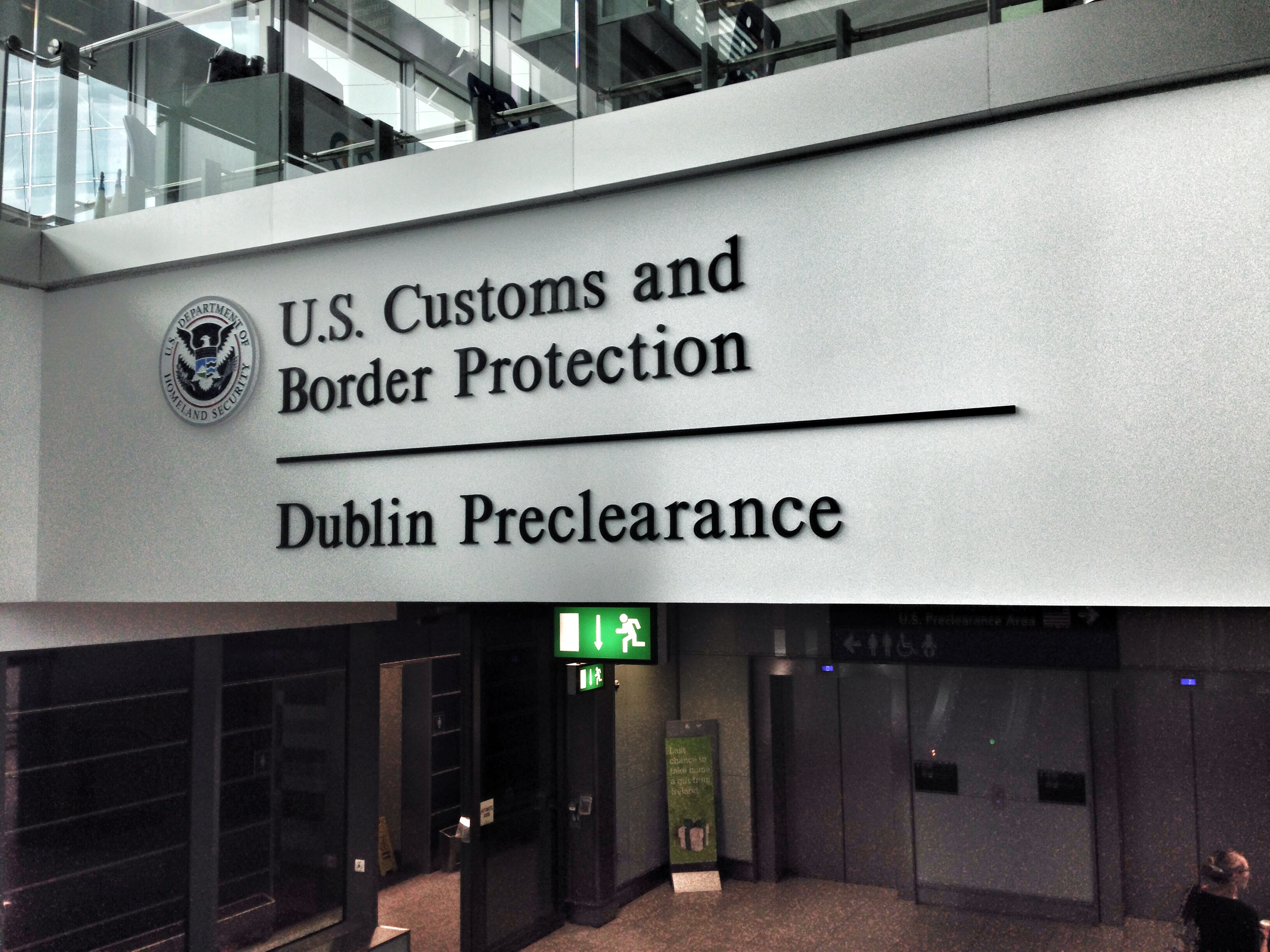 U.S. Customs and Border Protection - Dublin Preclearance, Dublin Airport, Ireland - August 2014